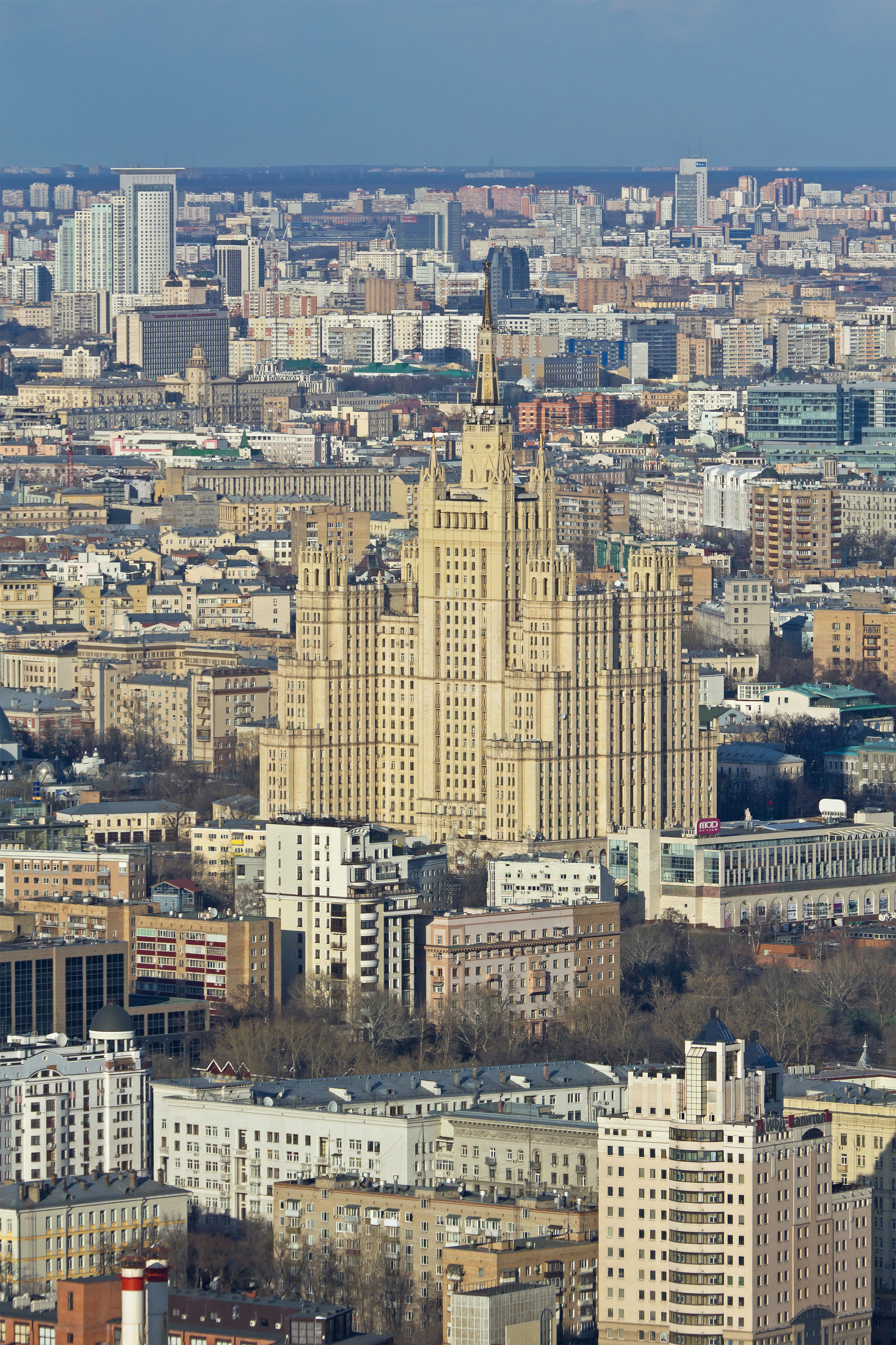 Moscow: view from the observation point of Imperia Tower (Moscow-City)